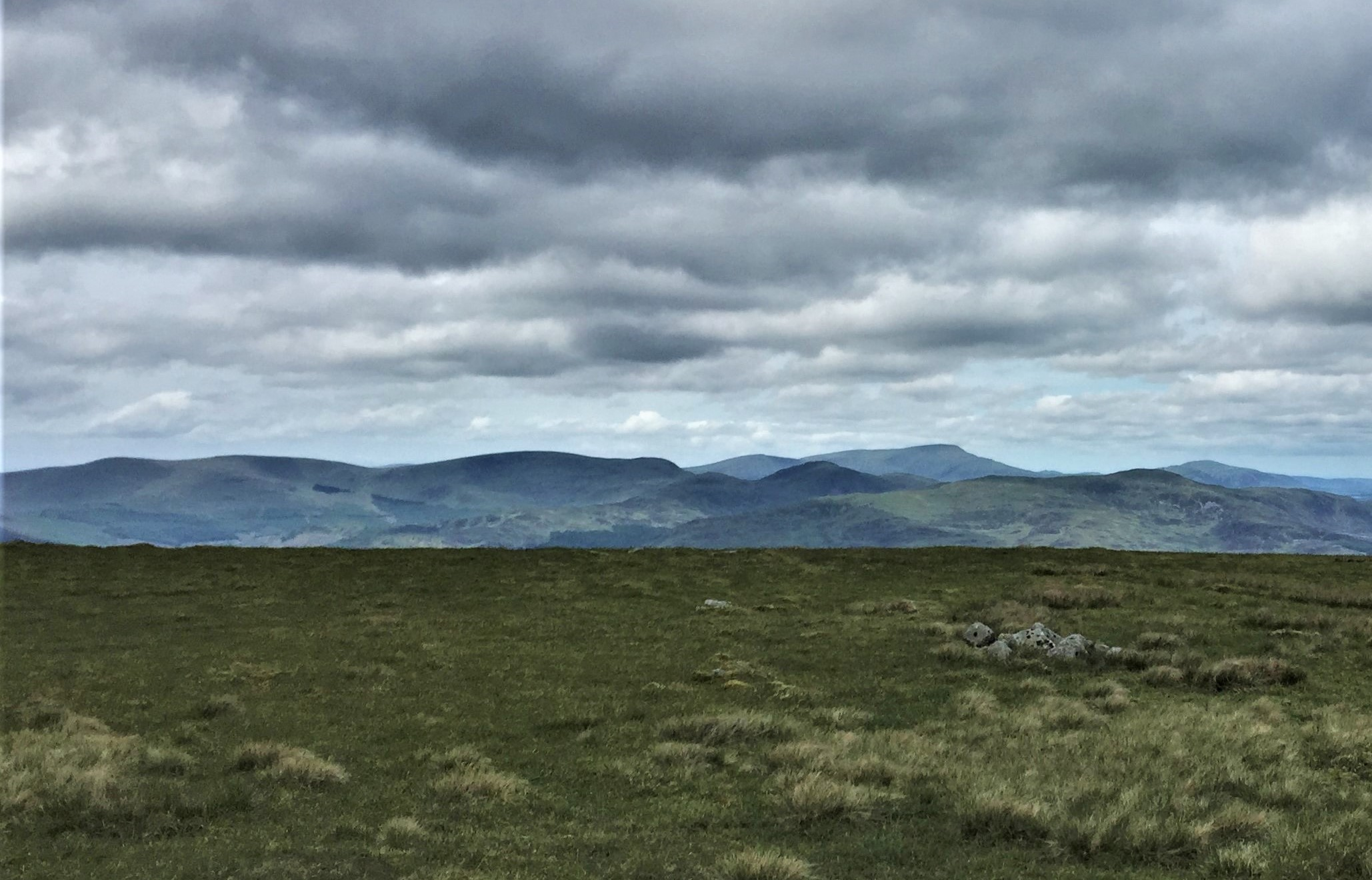 Minnigaff Hills from Cairnsmore of Fleet [L-R]: Larg Hill, Lamachan Hill, Curleywee and Millfore. In background [L-R]: Benyellary, Merrick and Dungeon Hills.